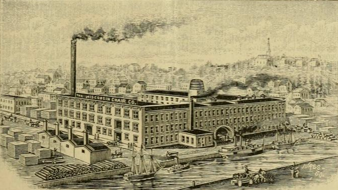 Lithographic print of the Wisconsin Chair Co. factory in Port Washington, Wisconsin.